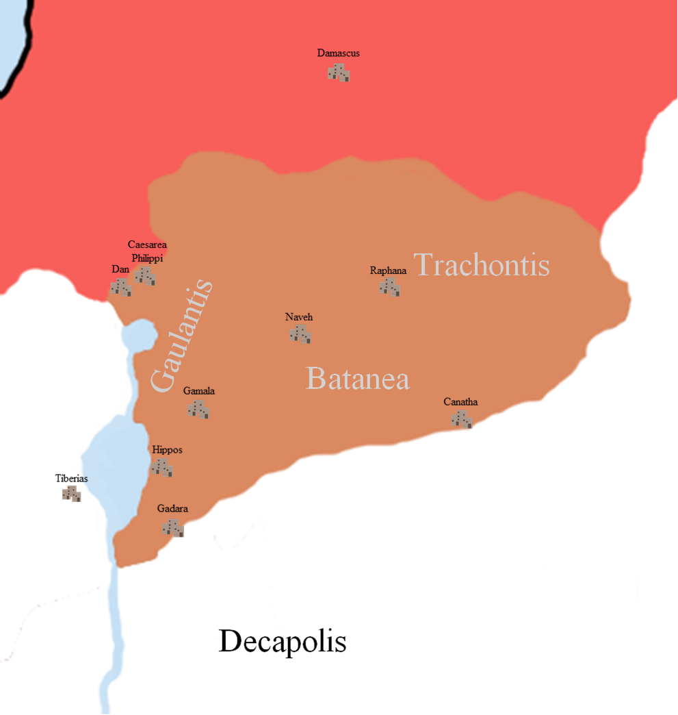 Map of the territory given to Philip the Tetrarch in 4 BCE, following the deatrh of his father.